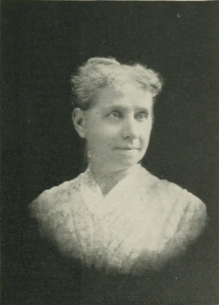 A Woman of the Century